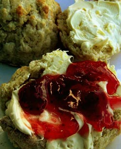 This image was taken by myself, Ibán Yarza. It now belongs to the public domain, you can use it freely. However, I would suggest you to acknowledge the authorship.